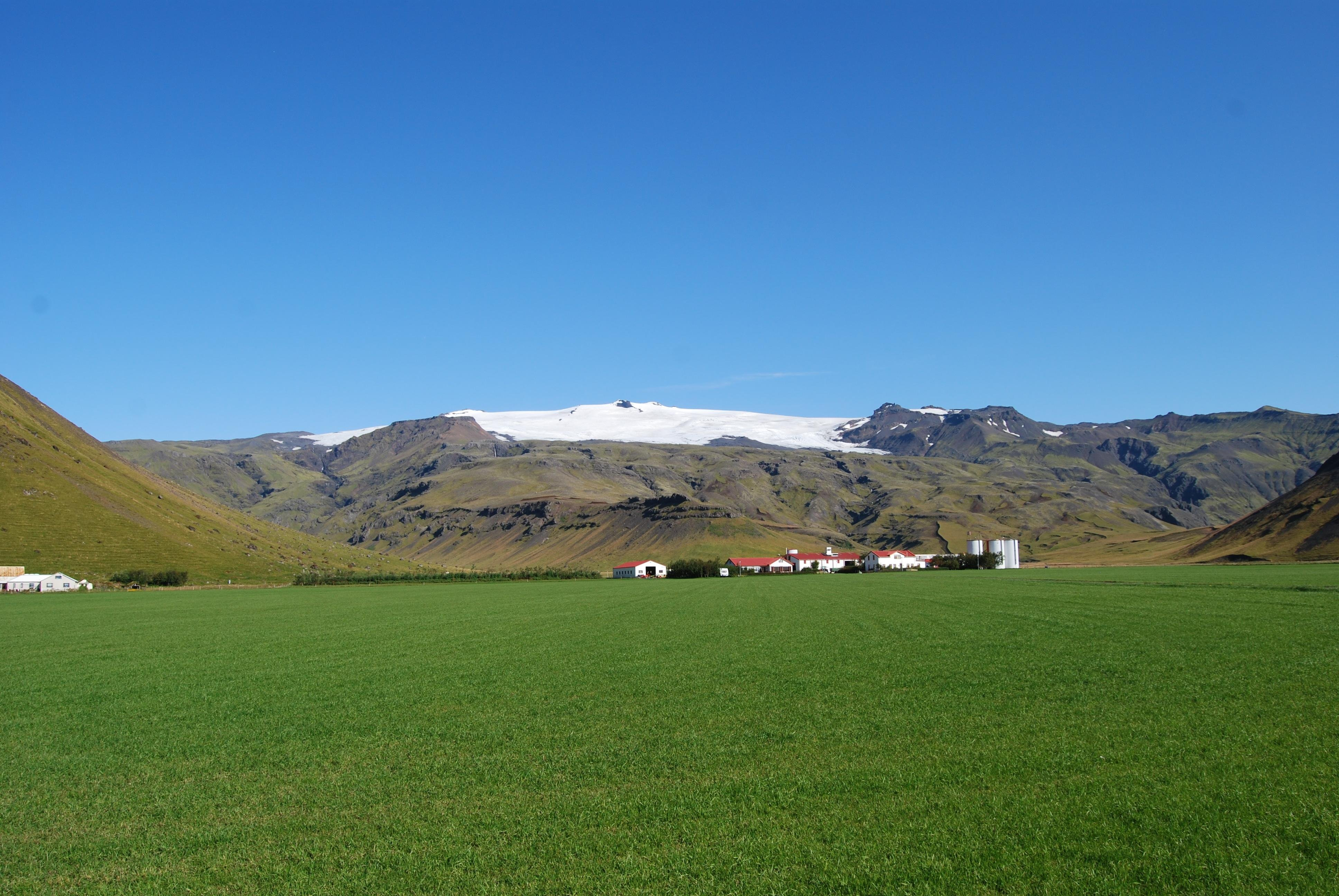 Eyjafjallajökull glacier, taken from the Iceland Ring Road, during a trip on 29 August 2009